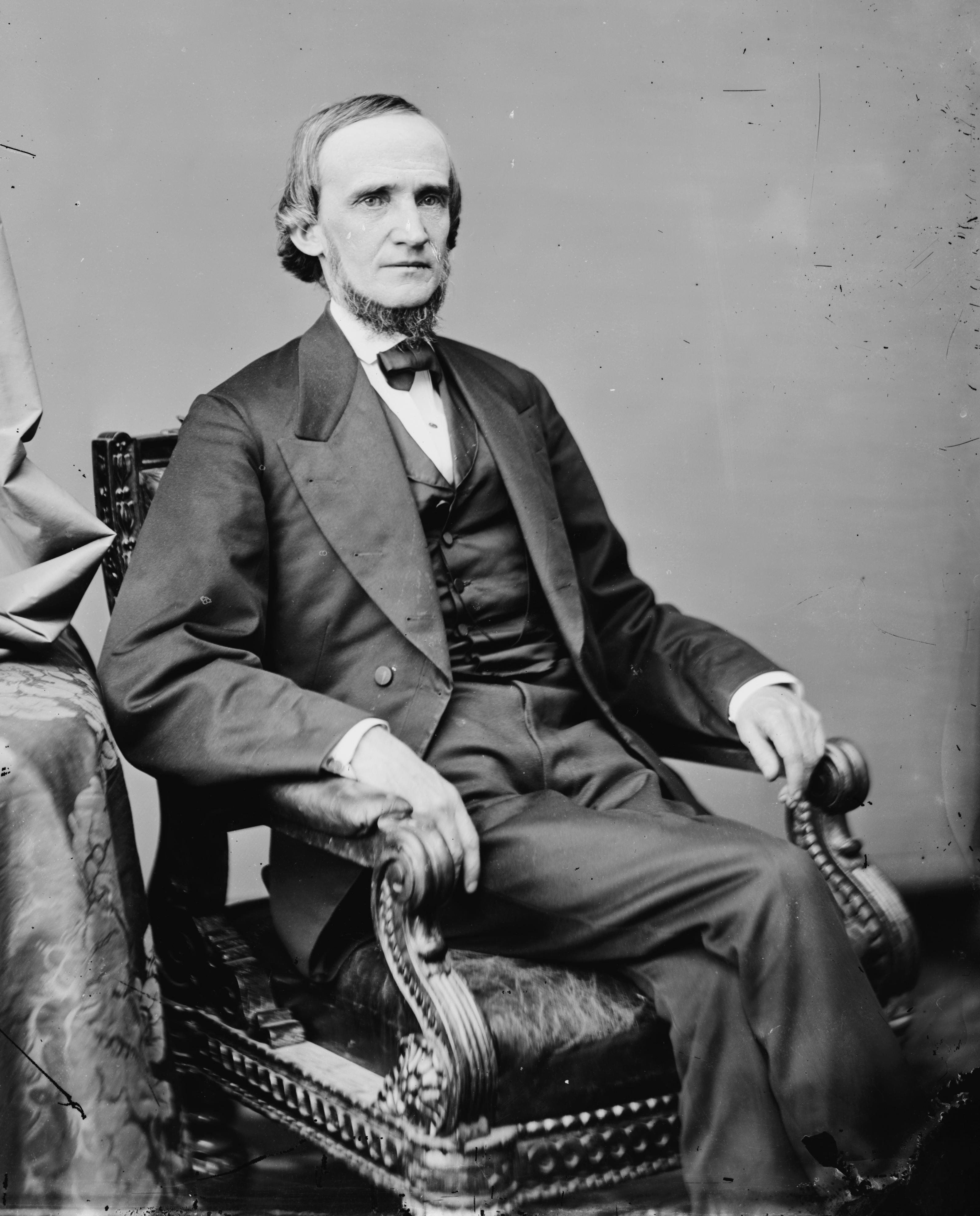 Oliver James Dickey. Library of Congress description: "Hon. Oliver James Dickey of PA."